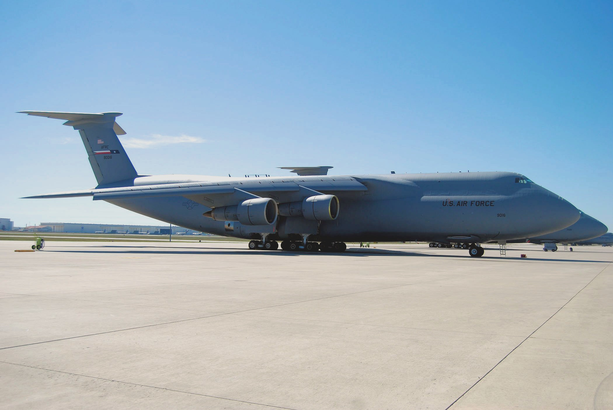 The C-5 Galaxy is the largest aircraft in the Air Force inventory. The Alamo Wing operates and maintains 16 of the giants at Lackland Air Force Base. In addition to flying missions in support of global requirements, the 433rd Airlift Wing is also home to the C-5 Formal Training unit and trains the future air crews for active duty, Air National Guard and the Air Force Reserve. (U.S. Air Force Photo/Senior Airman Viola Hernandez)